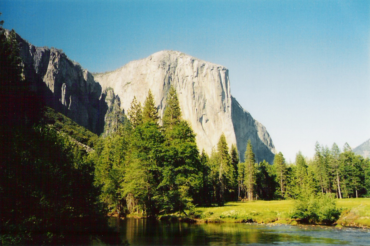 El Capitan, Yosemite National Park, USA.